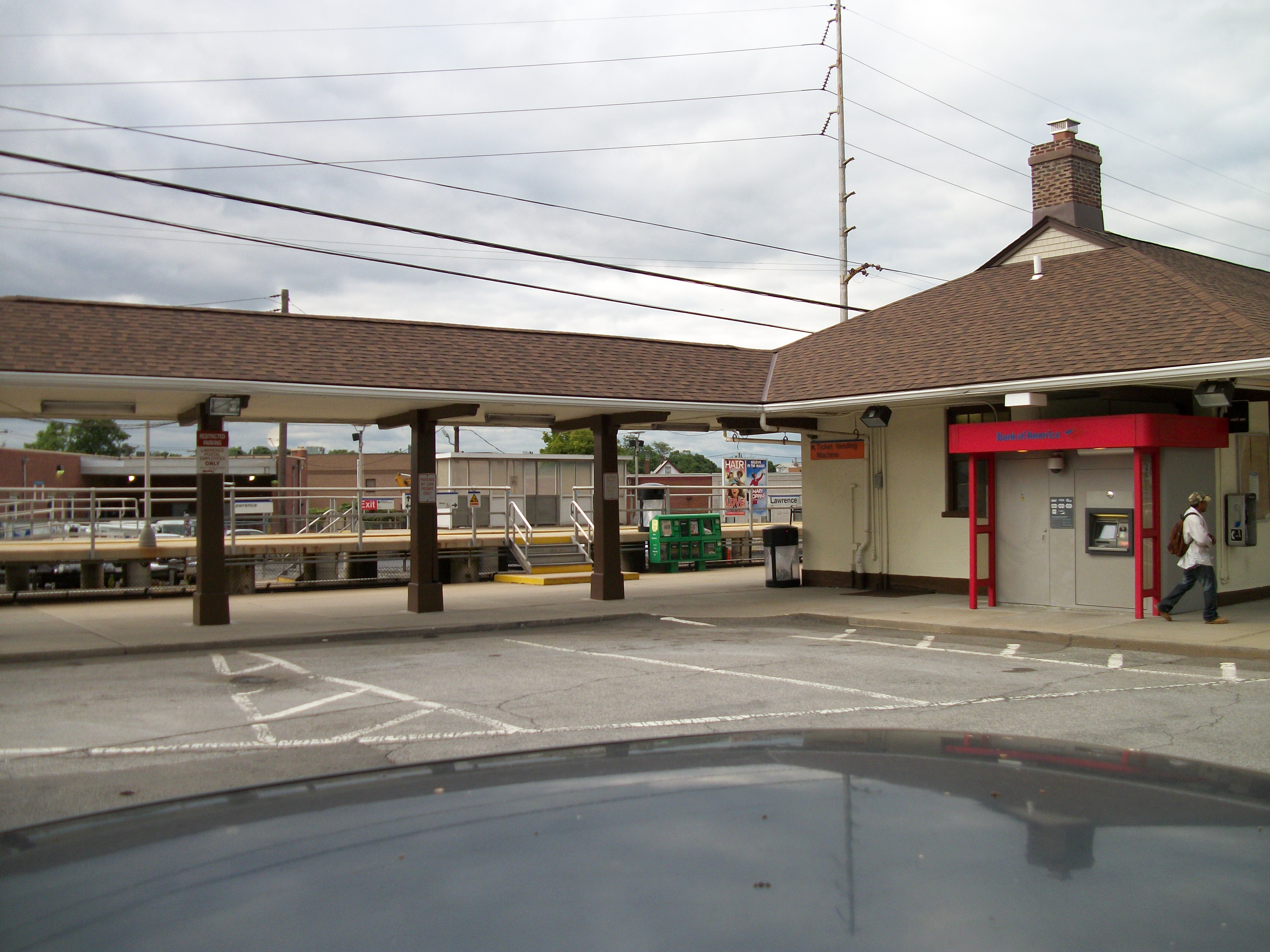 View of the canopy, platforms, and part of the station building from the entrance/exit at Lawrence (LIRR station) in Lawrence, New York. I had to stop in the southbound turn lane onto Lawrence Avenue to take this shot and one other. Good thing no cops spotted me or I would've got a ticket even if nobody was leaving at the time. Contrary to what the LIRR says, this is across the tracks from Lawrence Avenue & Bayview Avenue.